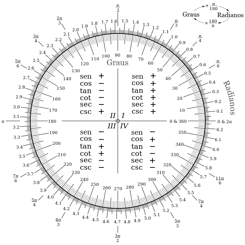 A chart for the conversion between degrees and radians, along with the signs of the major trigonometric functions in each quadrant.